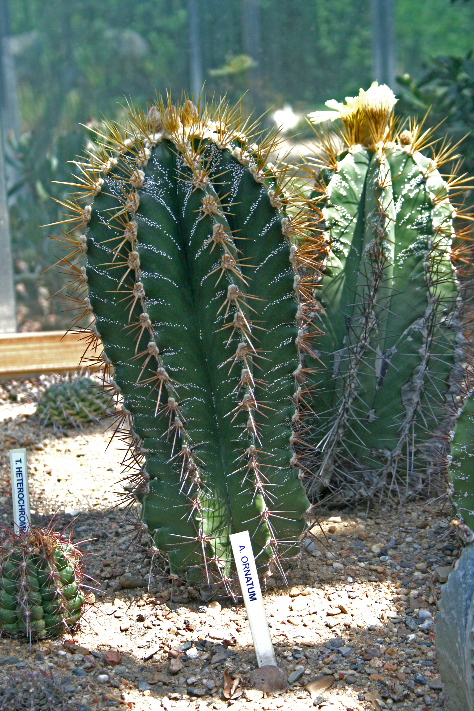 Cactus Astrophytum ornatum from the Botanical Gardens of Charles University, Prague